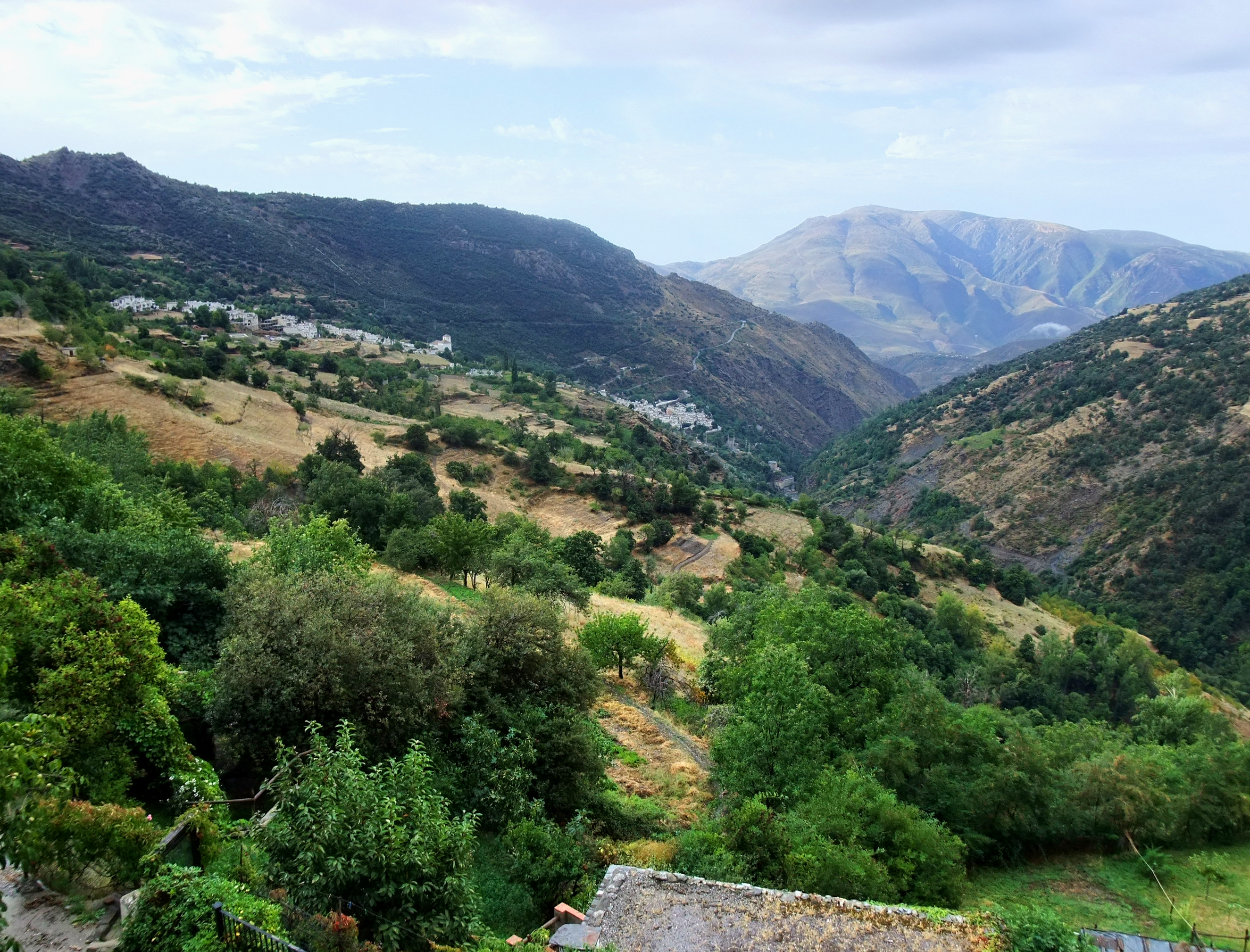 View to the Mount Veleta north of Capileira, Sierra Nevada in Spain